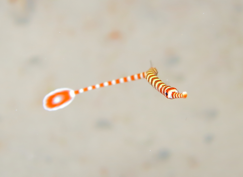 The banded pipefish has a straight, elongated body which reaches a maximum length of 19 cm (7.4 in)